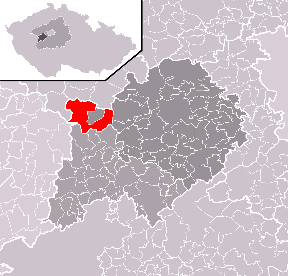 Location of Broumy municipality within Beroun District and administrative area of Beroun as a Municipality with Extended Competence.